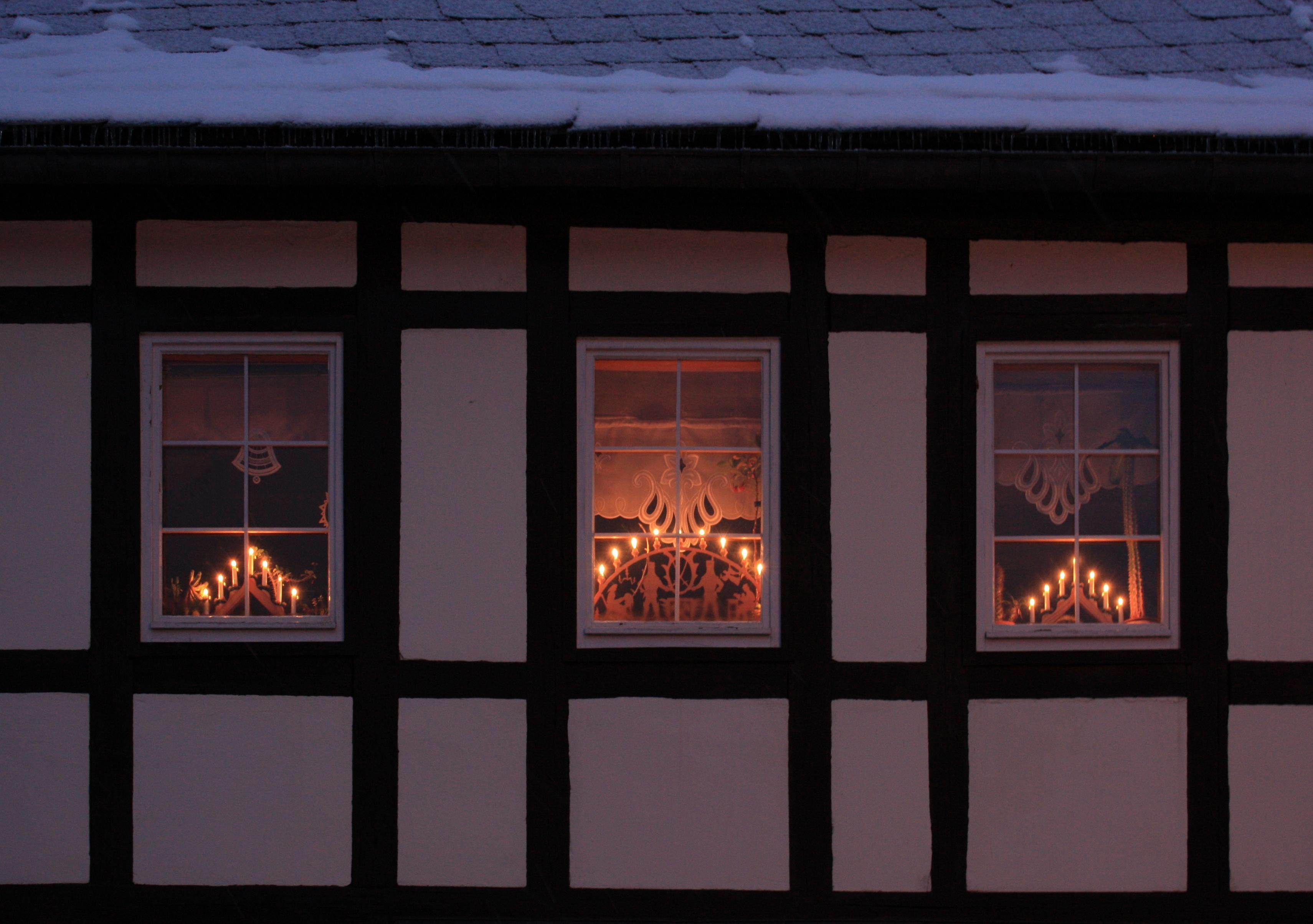 Schwibbogen in Window of Residence in Rittersgrün, Erzgebirge